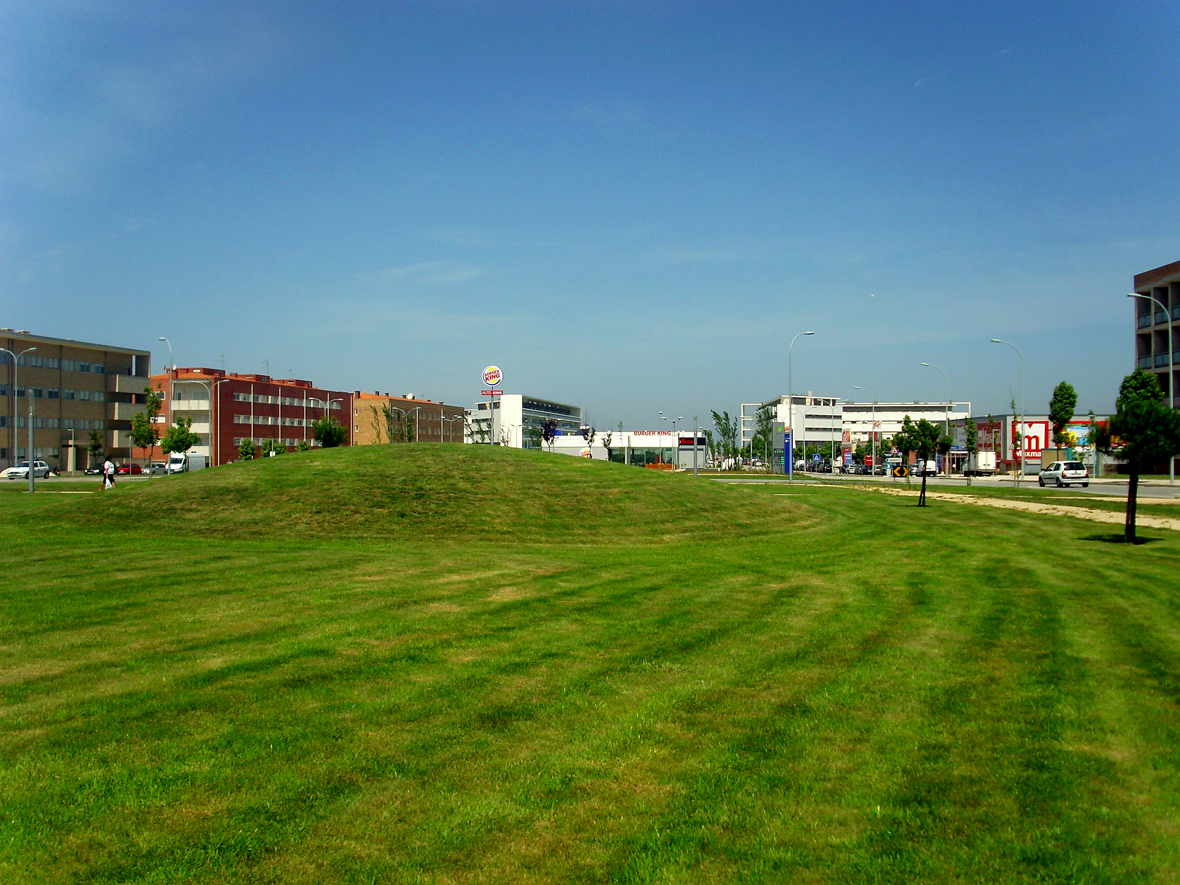 25 de Abril Avenue, Povoa de Varzim, Portugal